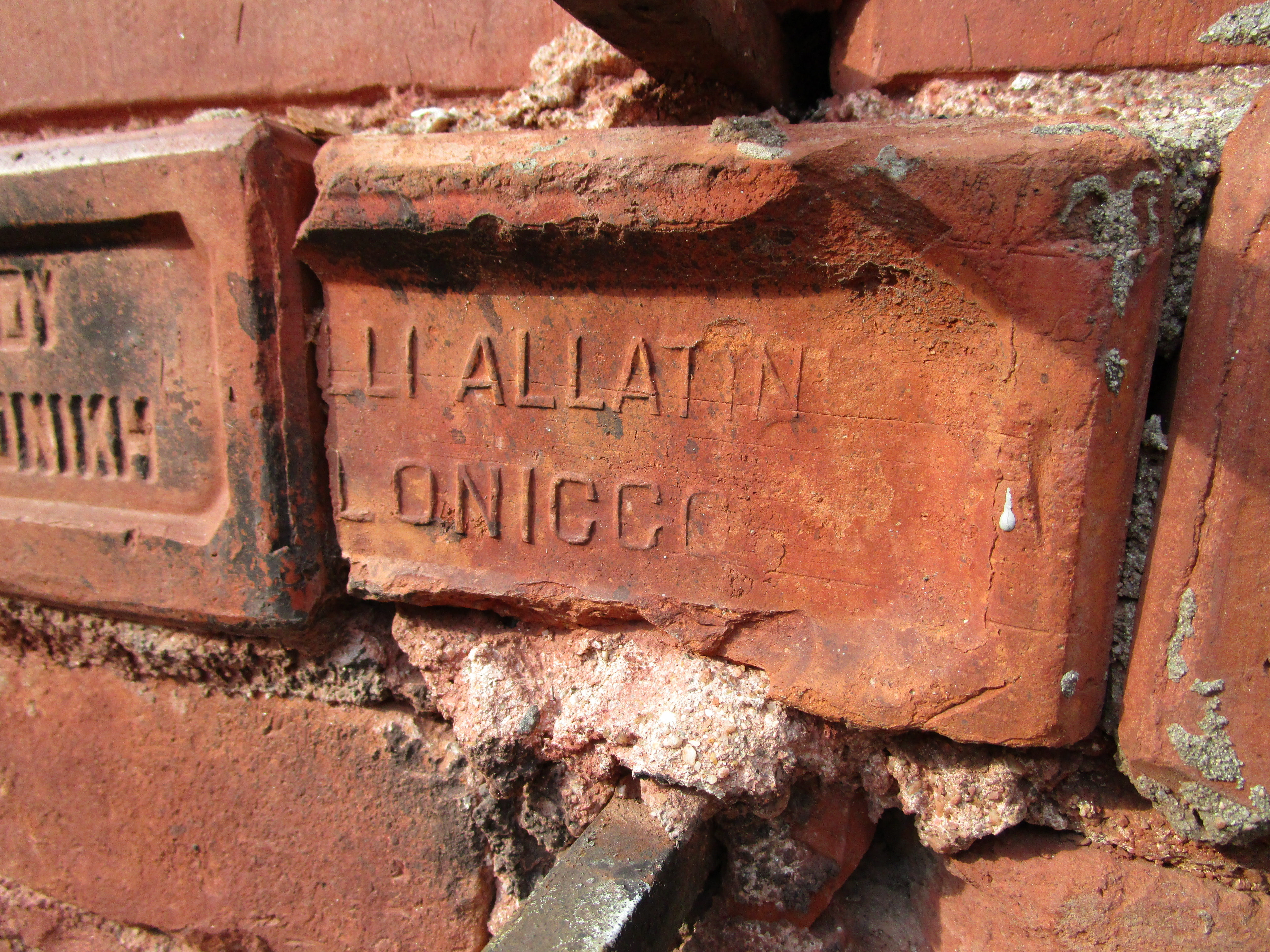 Allatini brick, Thessalonika